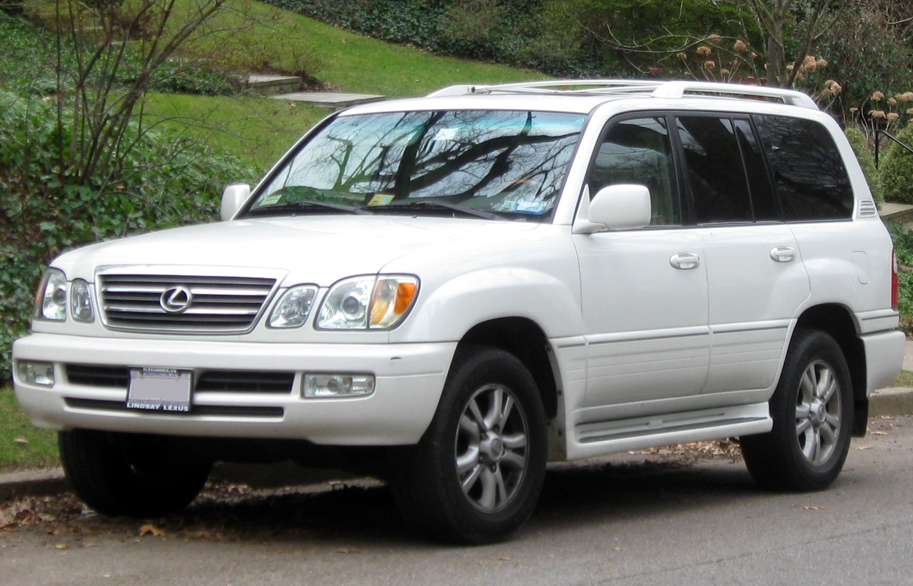 Lexus LX470 photographed in Washington, D.C., USA.